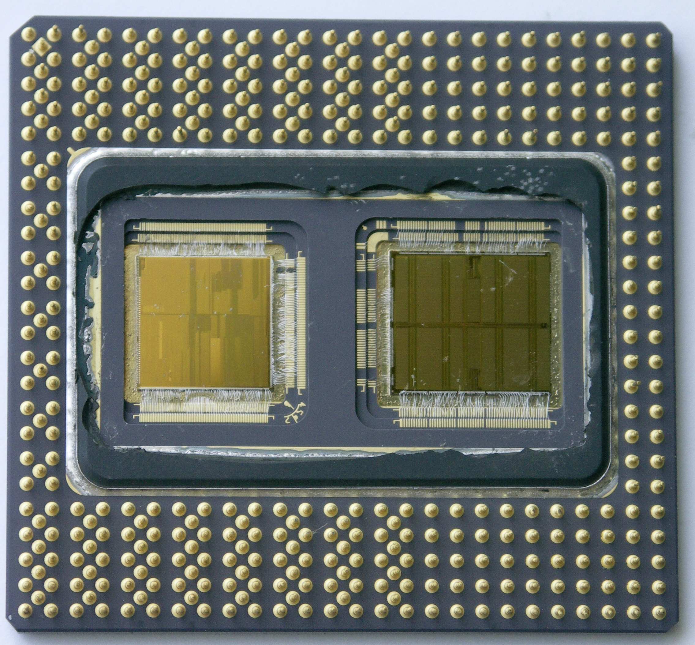 Pentium Pro decapped. The processor die is on the left and the L2 cache on the right.